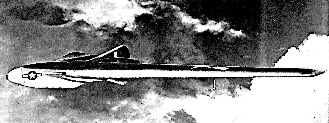 Artist's concept of the Interstate XBDR-1 jet-powered assault drone in flight.